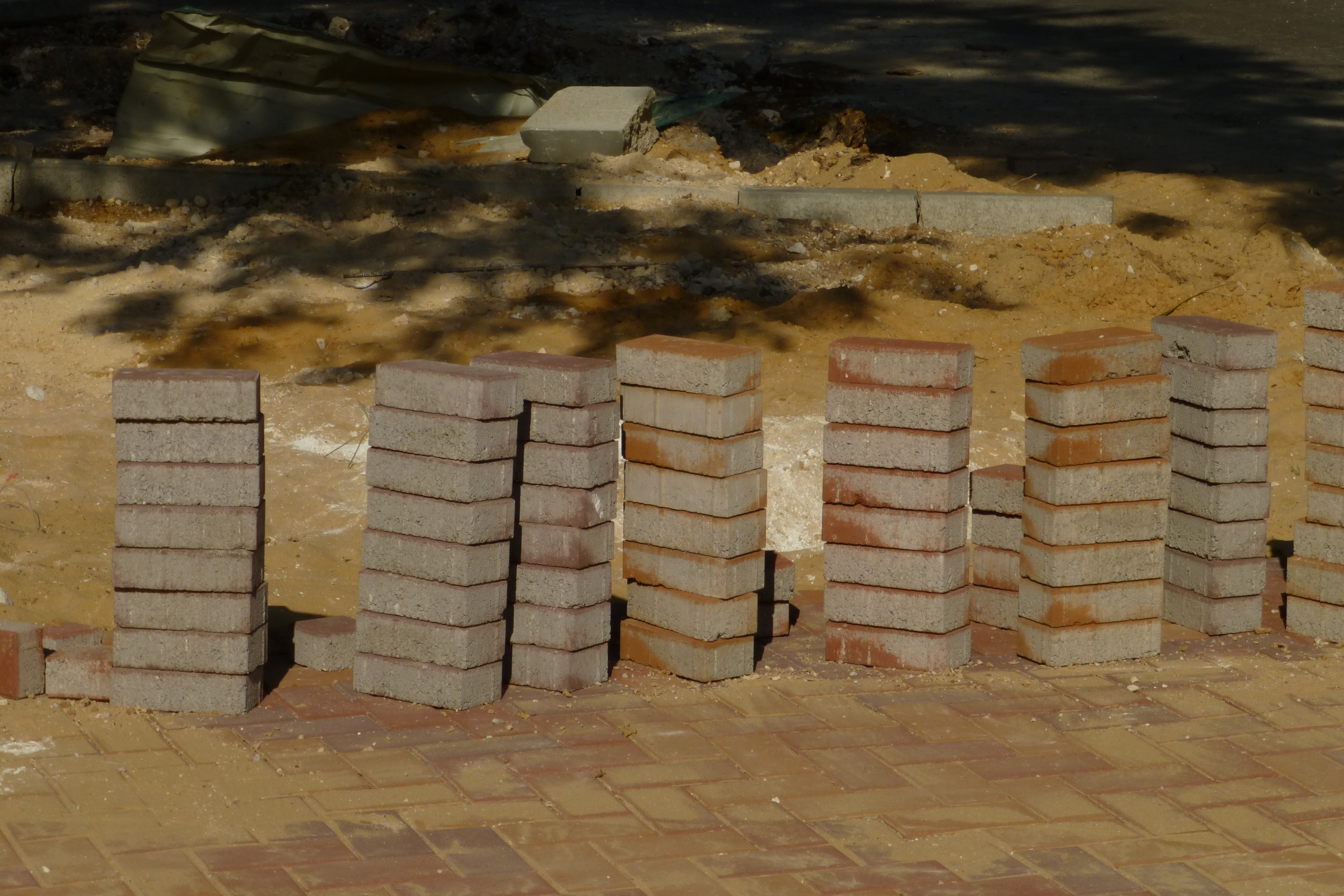 Flooring